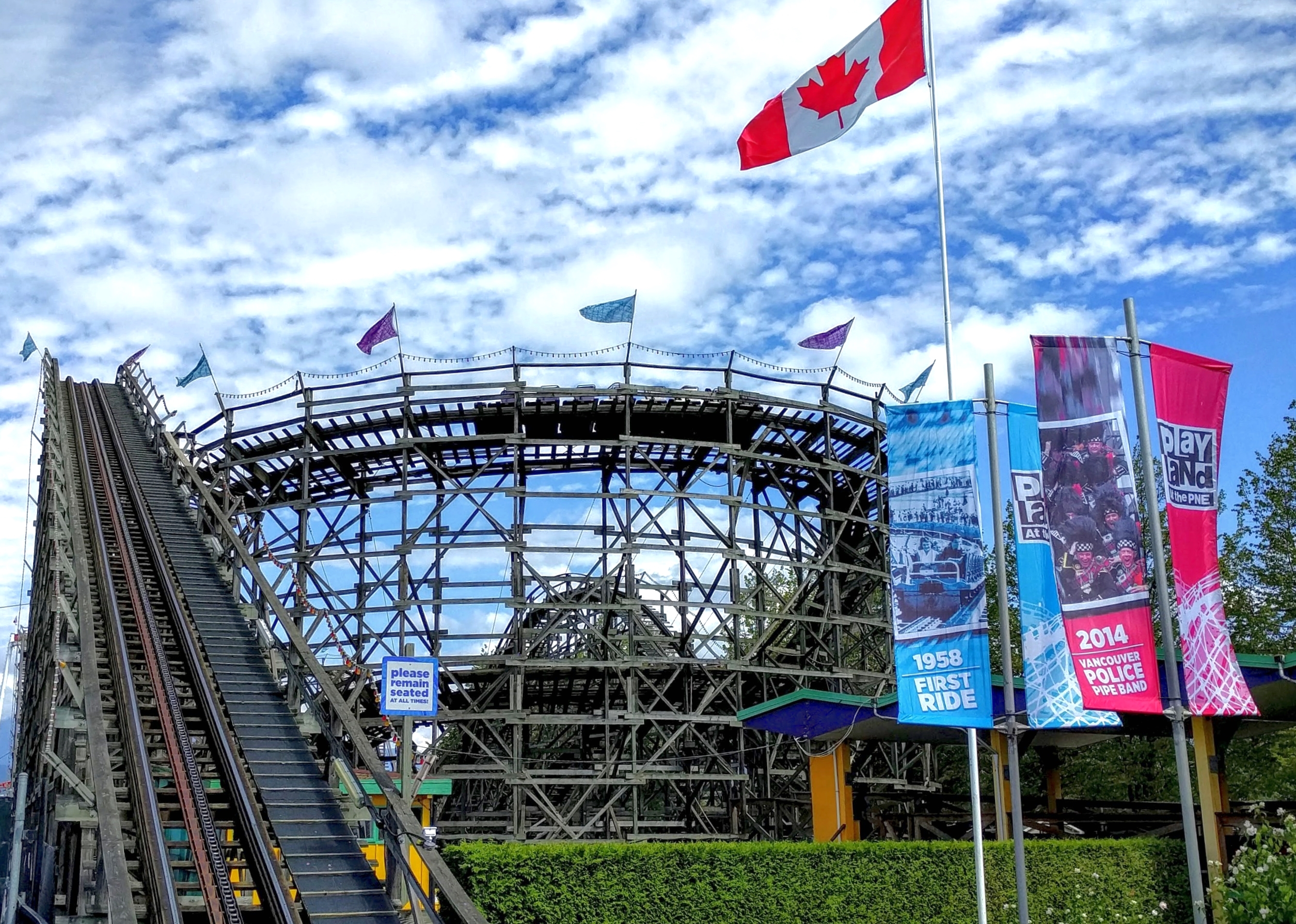 Lift hill for the wooden roller coaster at Playland in Vancouver, British Columbia, Canada, in August 2016.